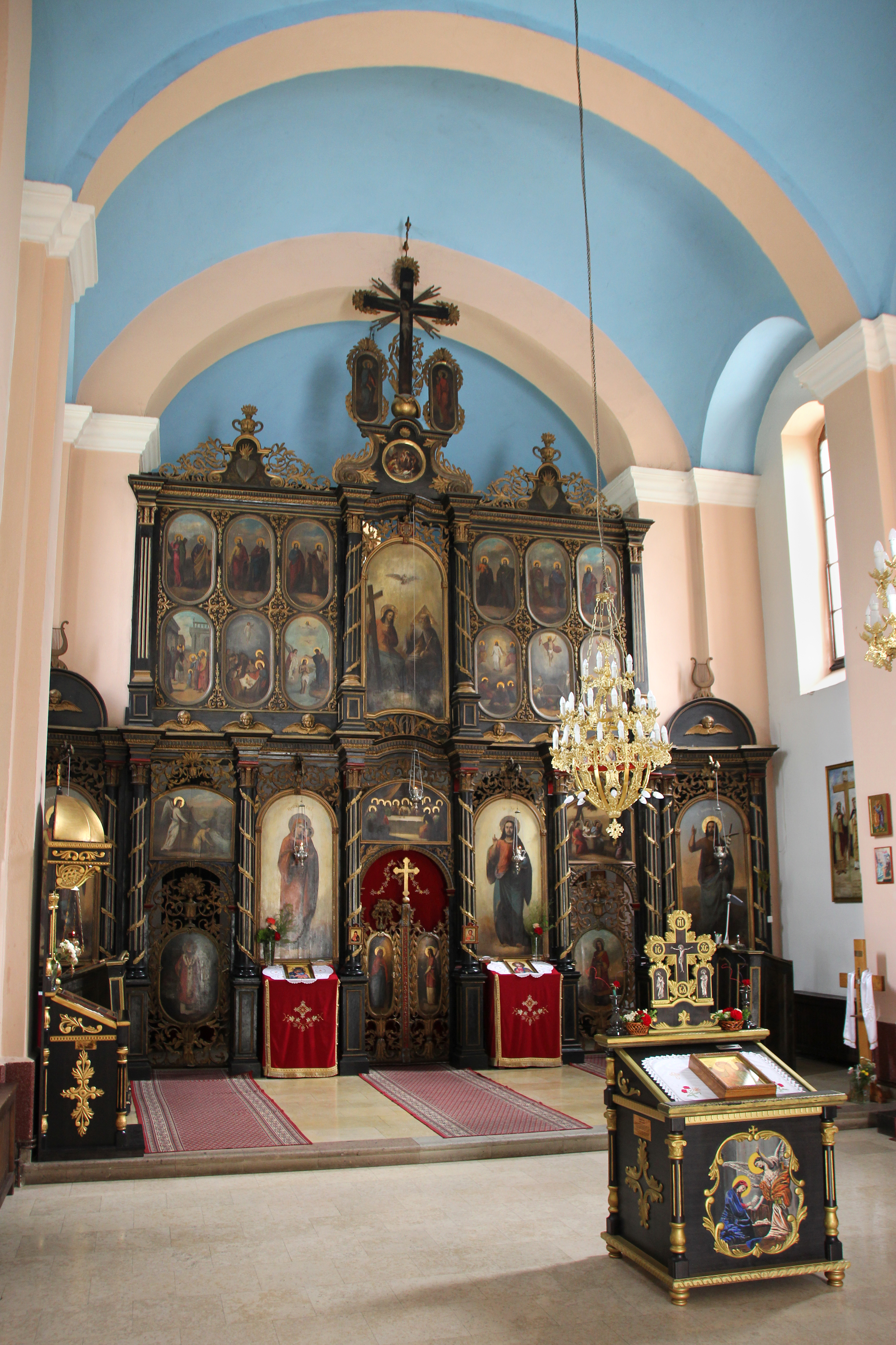 Church of the Holy Archangel Gabriel in Arandjelovac, also known as Vrbička Church. It was built in 1862, according to the decision of Prince Milos Obrenovic. Church has the status of cultural monument.